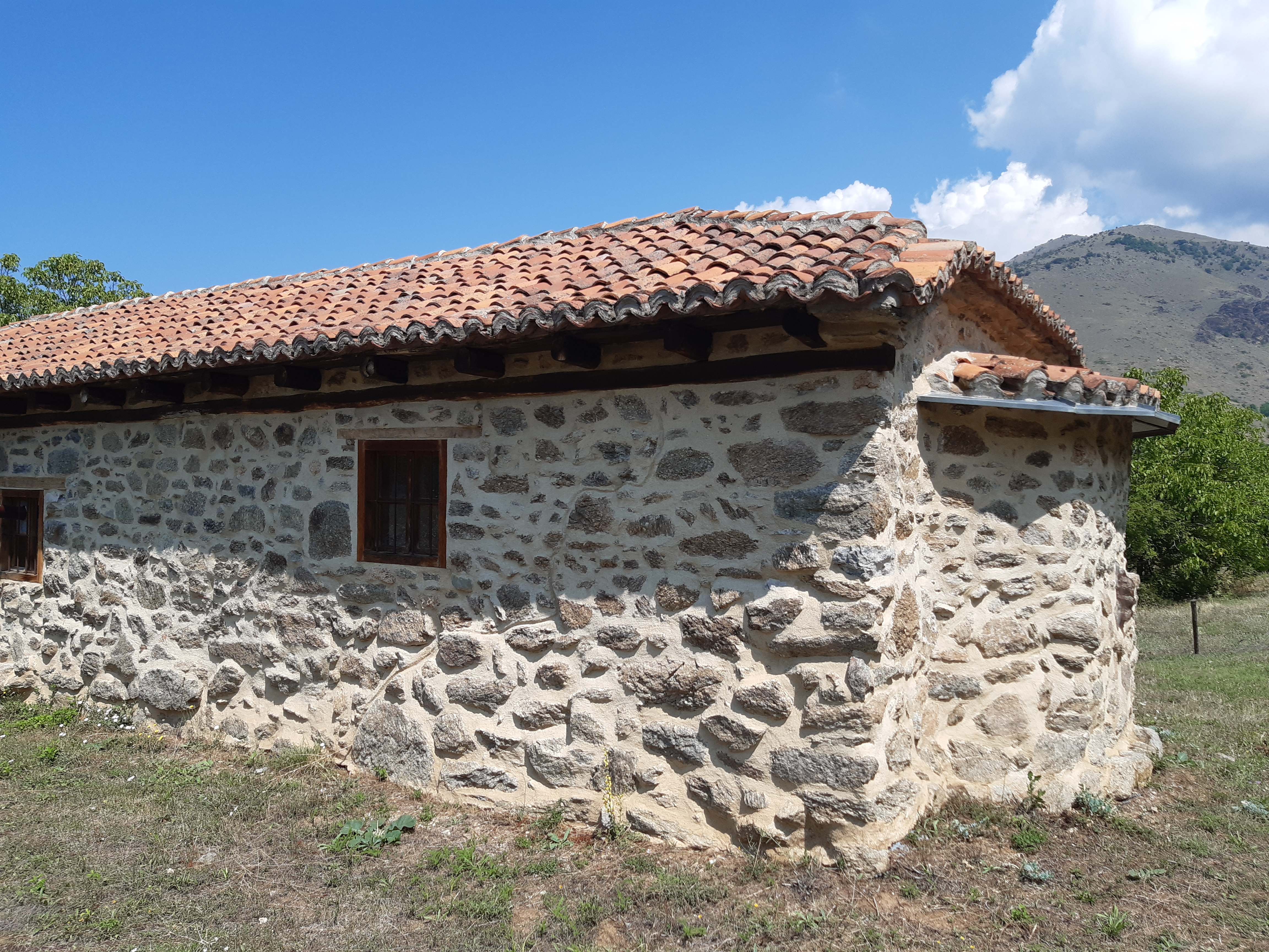 Candlemas Church, Laimos